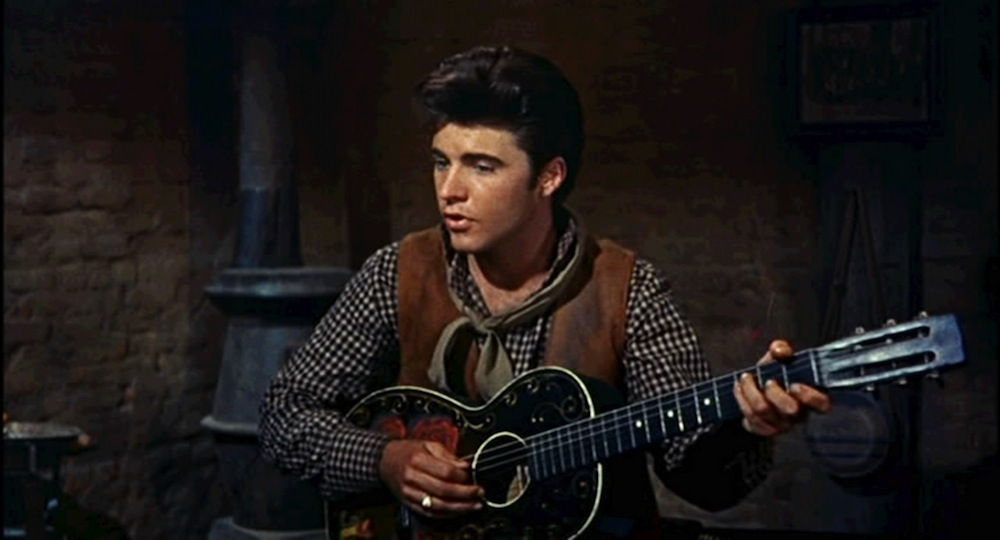 Cropped screenshot of Ricky Nelson from the trailer for the film Rio Bravo